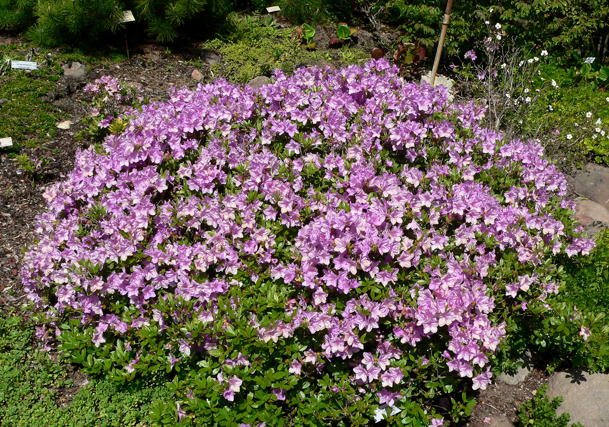 Rhododendron yedoense var. poukhanense at the University of California Botanical Garden, Berkeley, California